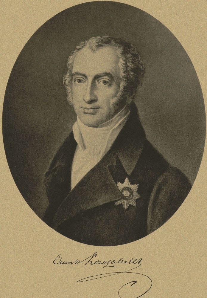 Osip Petrovich Kozodavlev (March 29, 1754 – June 24, 1819)